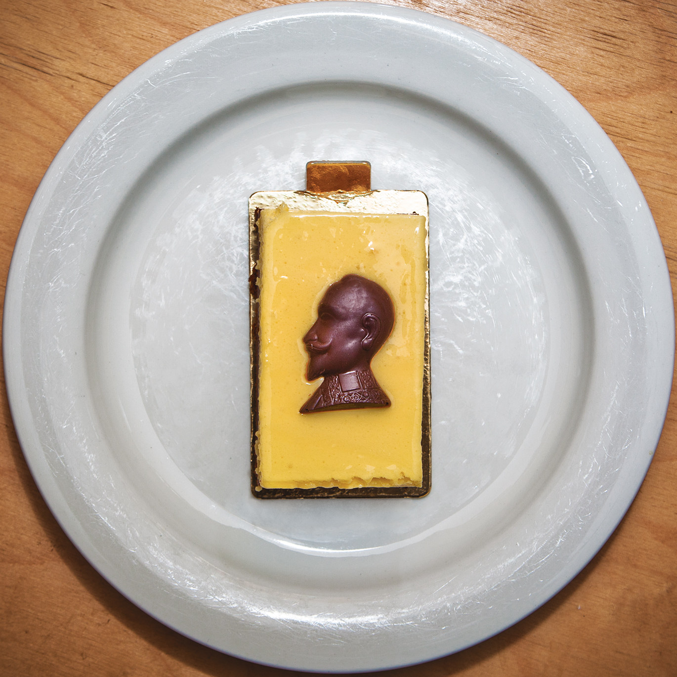 Gustav Adolfsbakelse, a cake eaten on Gustav Adolfsdagen (Gustavus Adolphus Day), November 6, in Sweden.